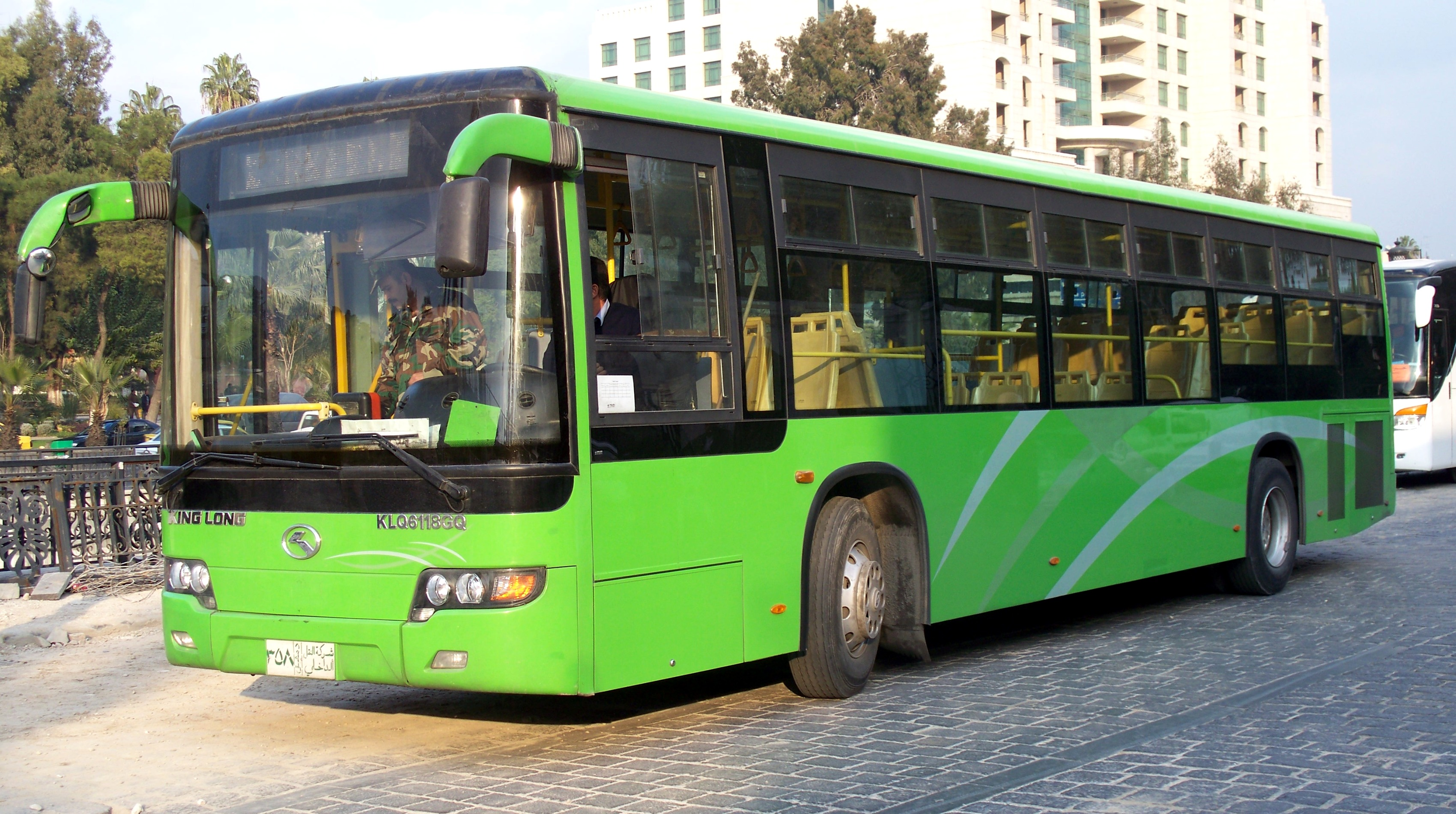 King Long KLQ 6118GQ bus in Damascus.